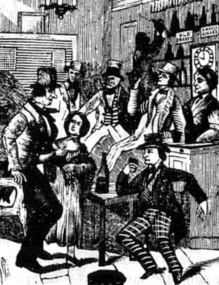 Detail from an illustration of a nineteenth century temperance play, "Ten Nights in a Barroom."